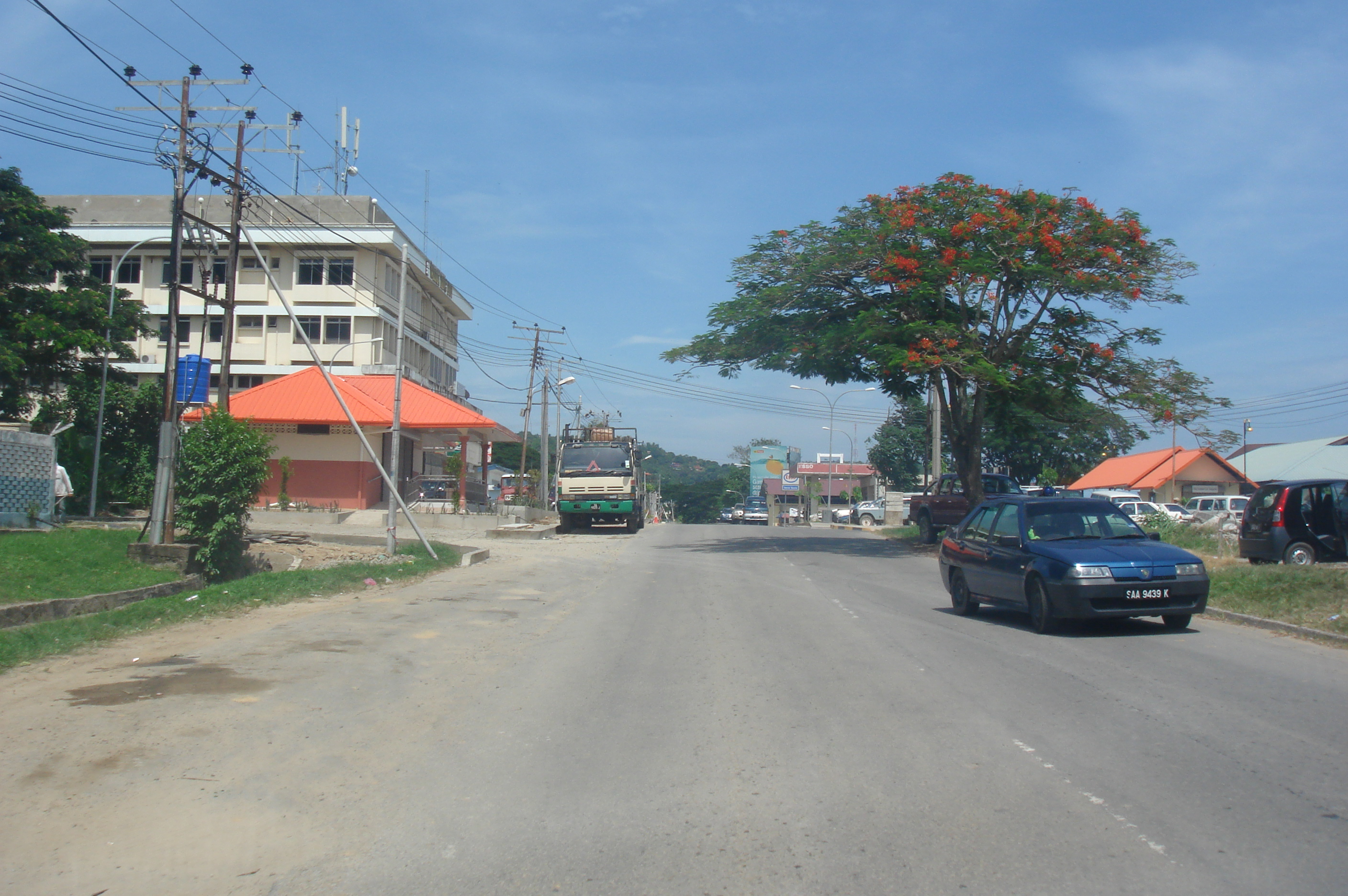 Tamparuli town centre, Sabah, Malaysia.